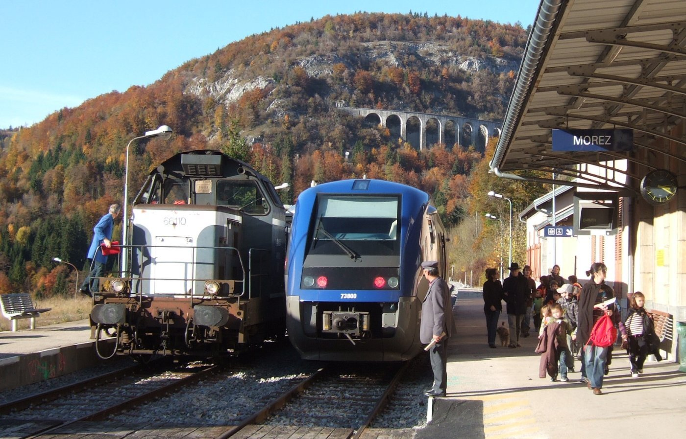 Train station of Morez